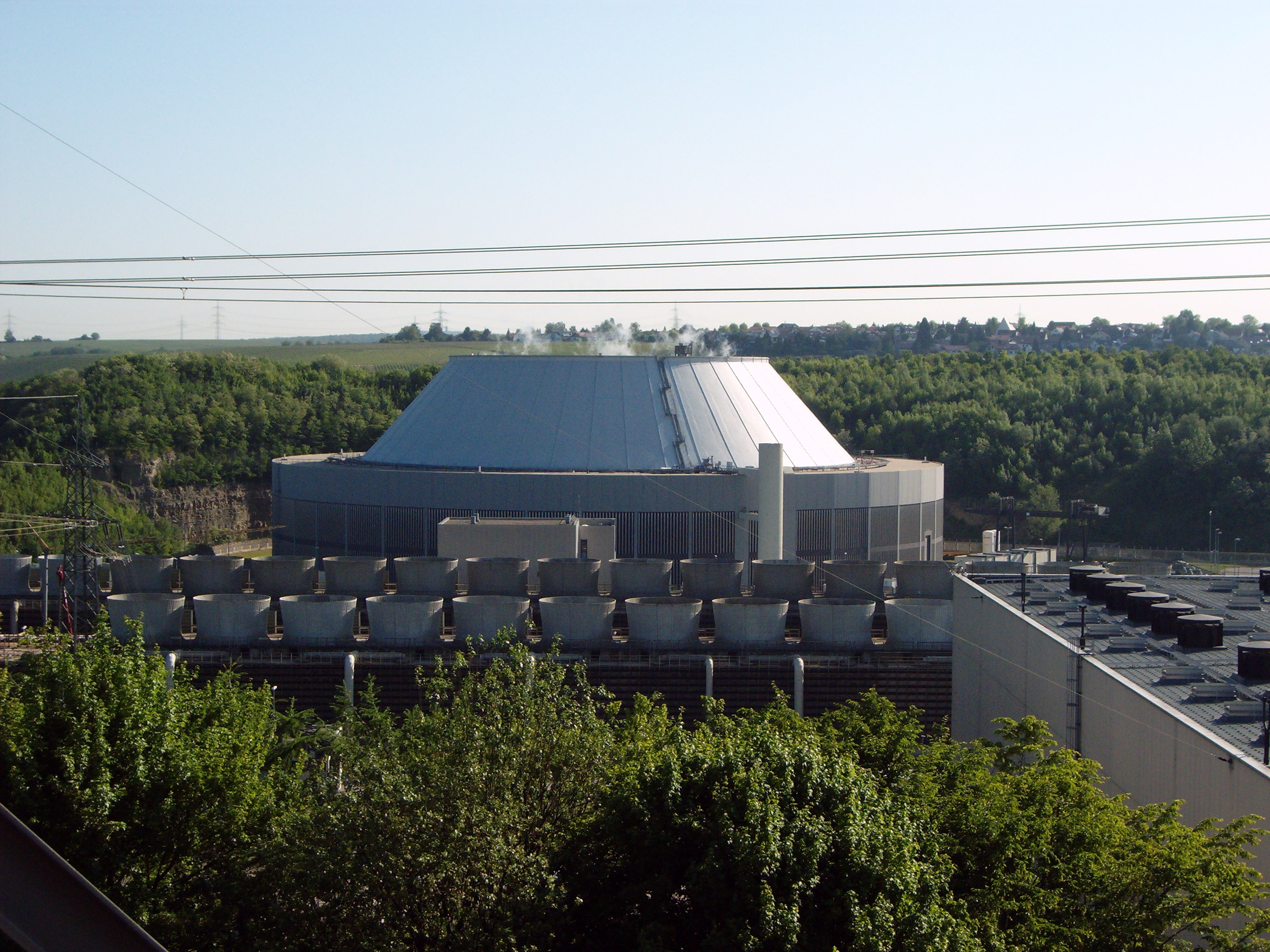 Cooling Towers (Hybrid-Cooling-Tower and conventional draft cooling tower of nuclear powerplant Neckarwestheim, Germany